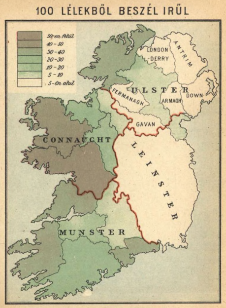 Situation of Irish (1917)